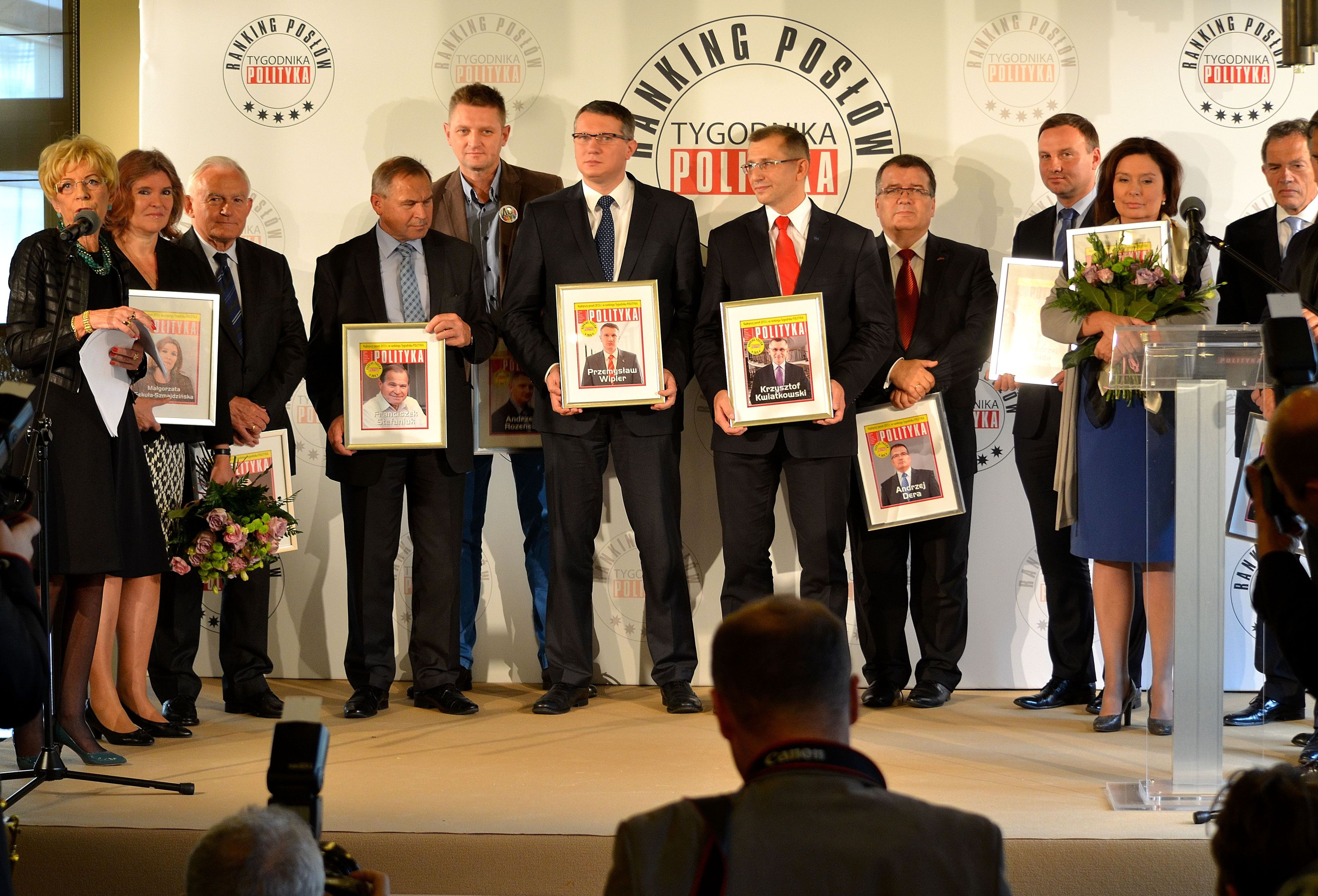 "Polityka" Best Polish MP awards ceremony at the New Deputies House in Warsaw. Standing from the left: Janina Paradowska (“Polityka”), Małgorzata Sekuła-Szmajdzińska, Leszek Miller, Franciszek Stefaniuk, Andrzej Rozenek, Przemysław Wipler, Krzysztof Kwiatkowski, Andrzej Dera, Andrzej Duda, Małgorzata Kidawa-Błońska and Dariusz Rosati.